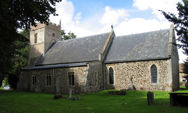 St Margaret of Antioch Wereham, Norfolk